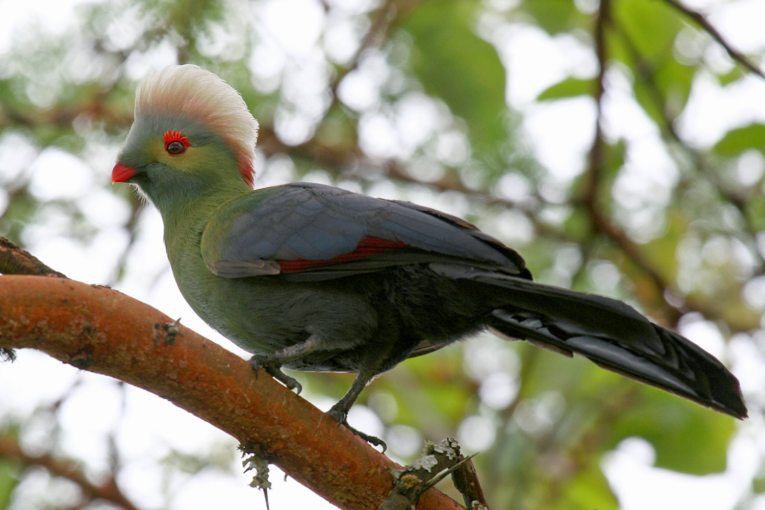 This image of the prince ruspoli's turaco (Tauraco ruspolii) was made close to the town Negele Borana in the Oromia region in Ethiopia.